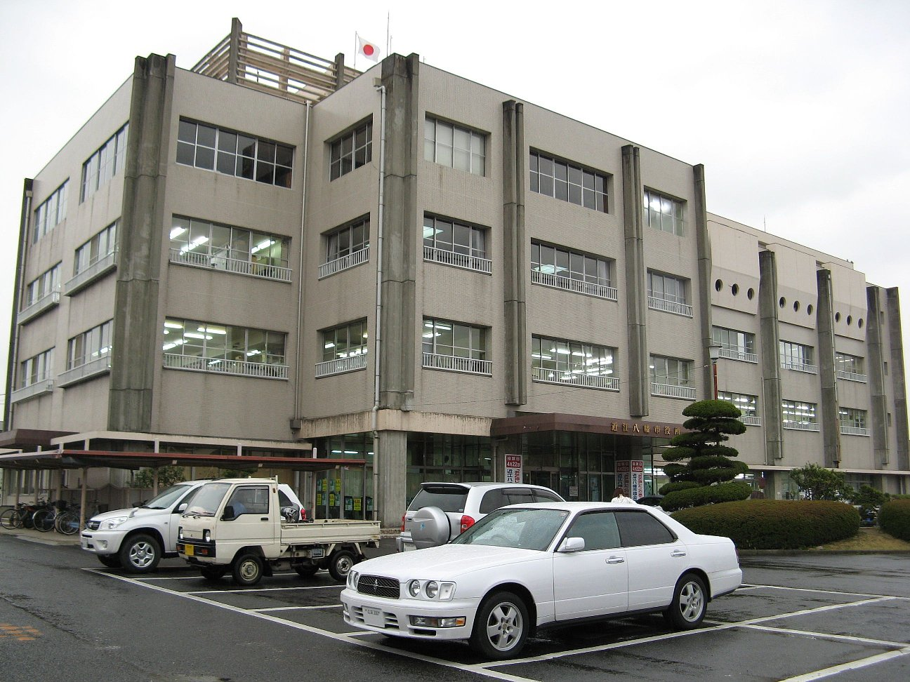 Omihachiman City Hall in Shiga Prefecture, Japan